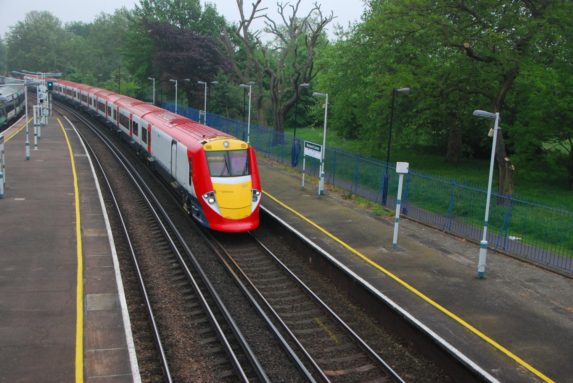 Gatwick Express passes Wandsworth Common